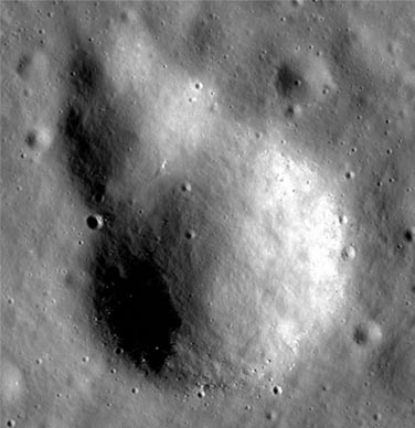 LROC NAC M181345381LC image (annotated and normal views – note: original NAC image is inverted vertically in link)